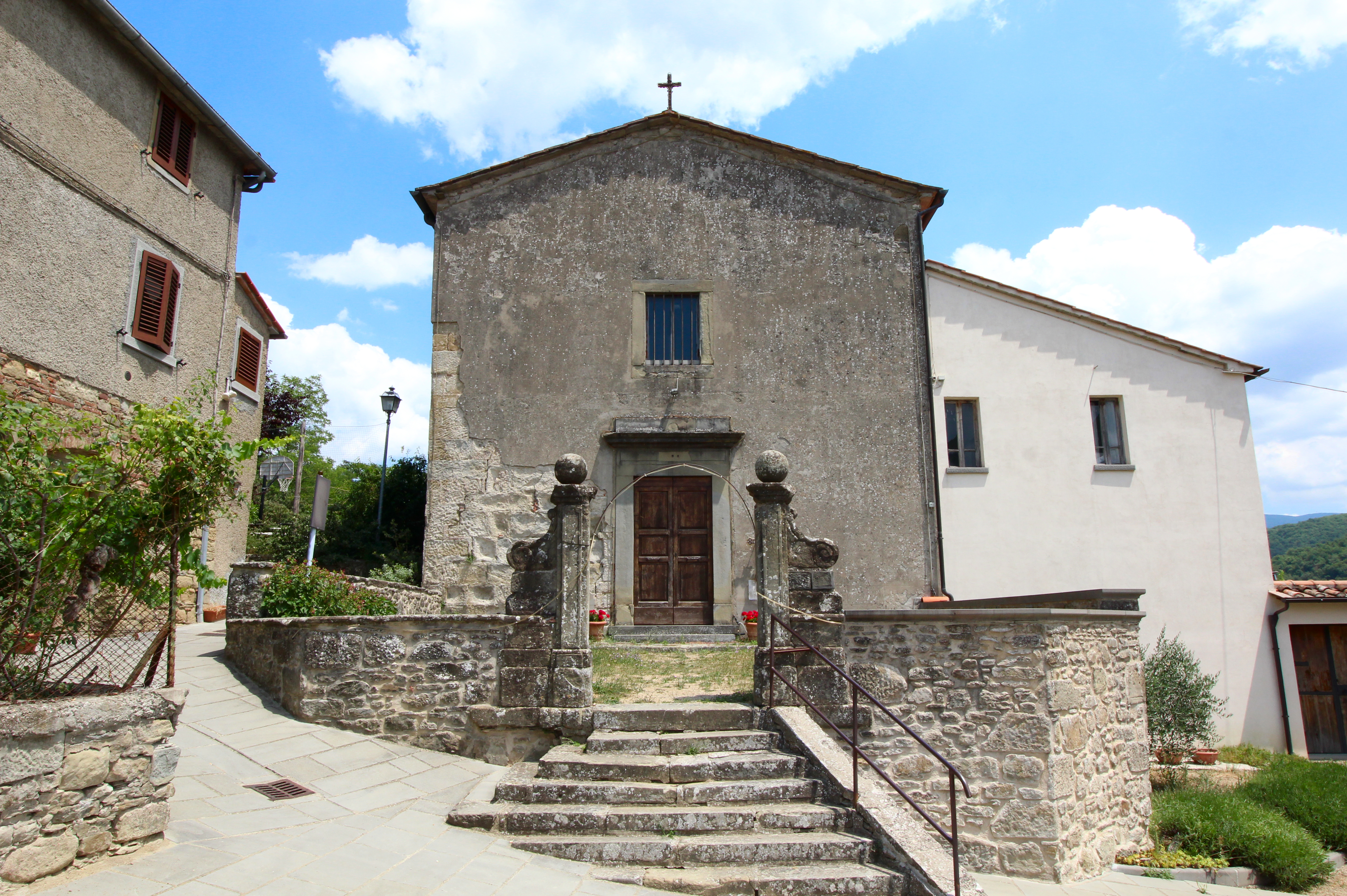 Church Sant'Eleuterio, Salutio, hamlet of Castel Focognano, Province of Arezzo, Tuscany, Italy